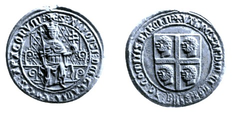 Alfonso IV of Aragon